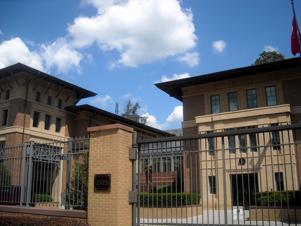 The Embassy of Turkey located at 2525 Massachusetts Avenue, NW in the Sheridan-Kalorama neighborhood of Washington, D.C. The building which housed the embassy from 1932–1999 now serves as the Turkish ambassador's residence. The Embassy of Turkey's 2009 property value is $36,887,090.